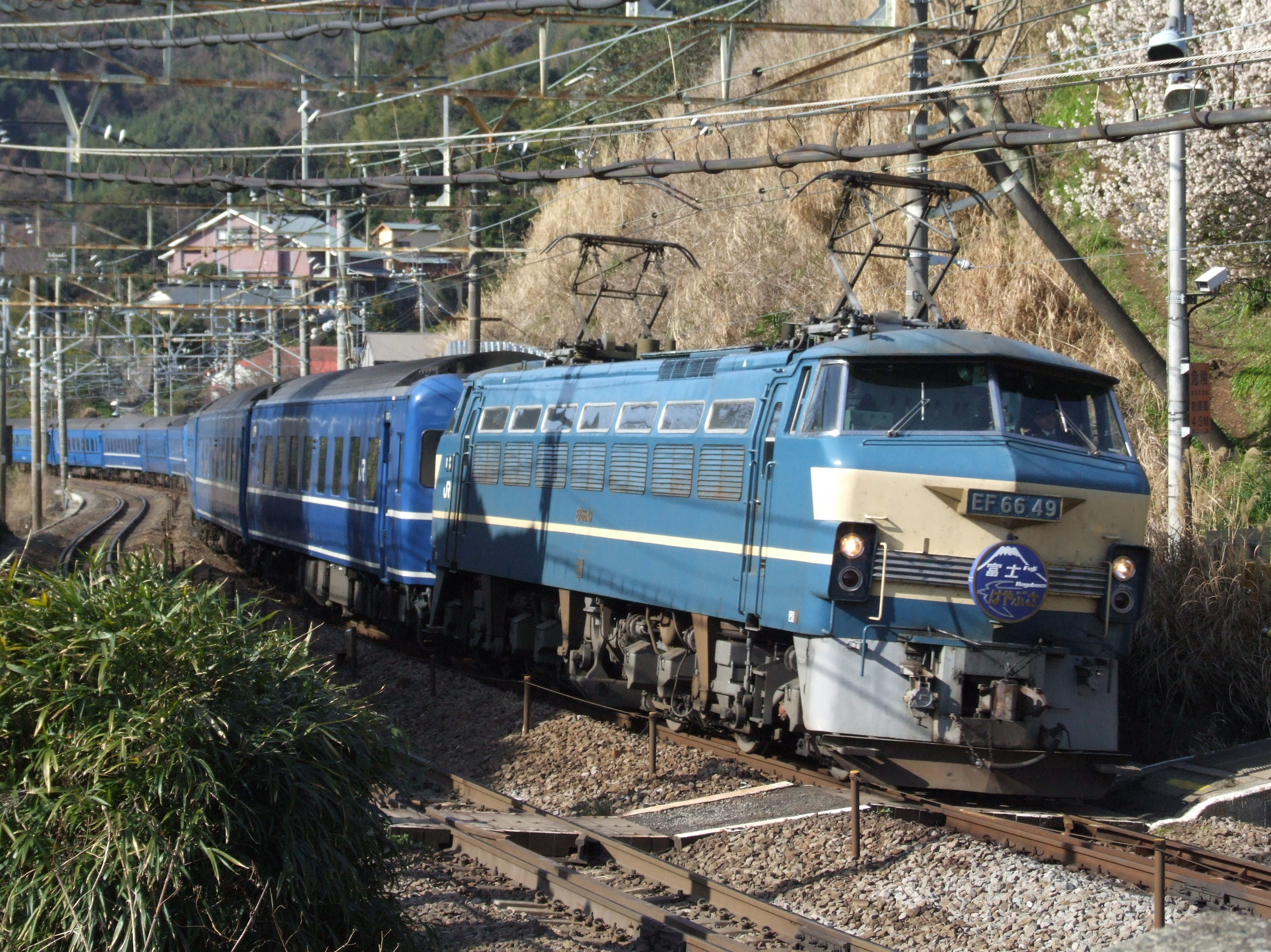 JR West Class EF66 electric locomotive EF66 49 hauling the up Fuji / Hayabusa sleeping car service on the Tokaido Line between Nebukawa and Hayakawa stations